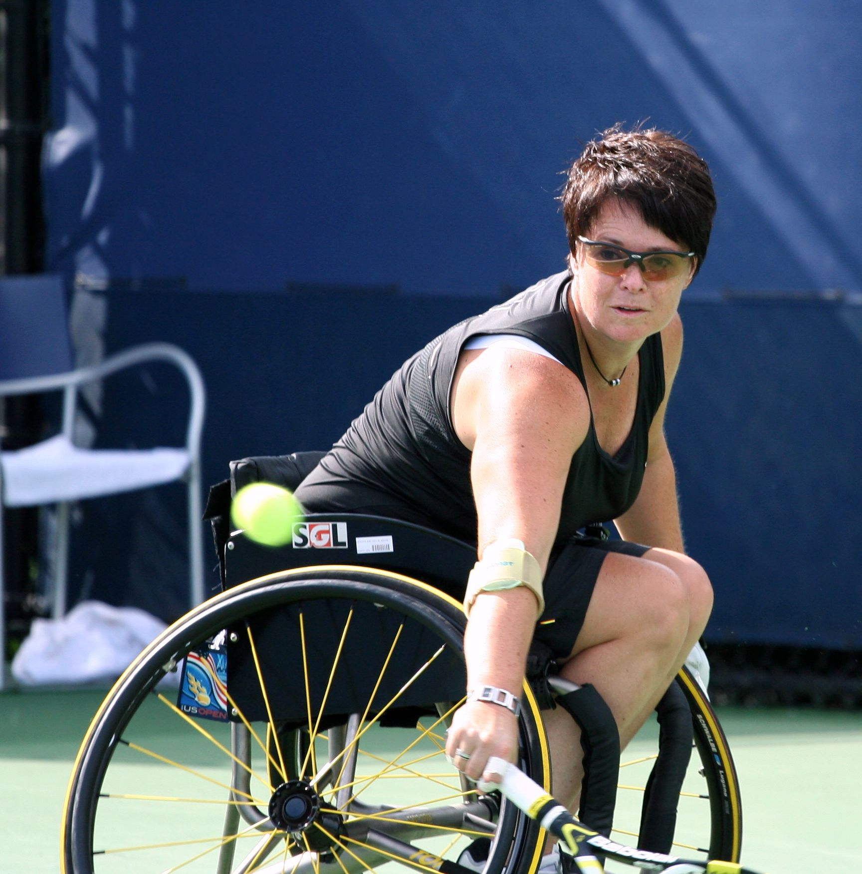 U.S. Open Wheelchair Thursday, Sept. 8, 2011